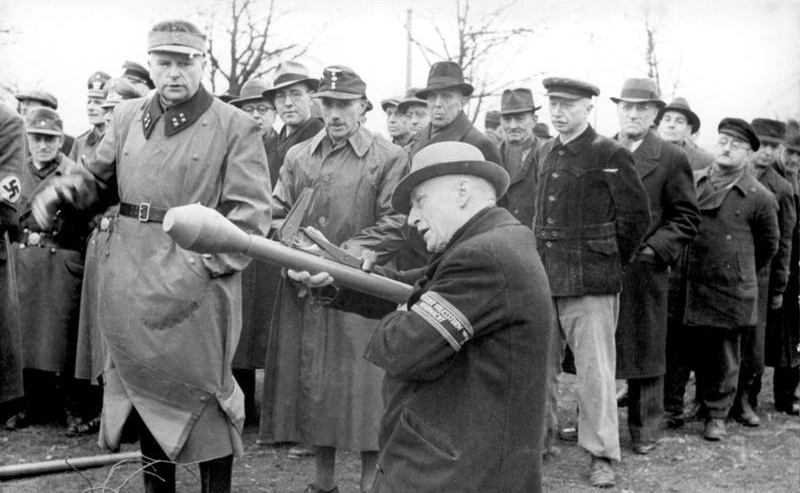 Fascist Germany in the Second World War, 1939-45 Berlin is declared a "defense zone" on 1 February 1945. In the first days of April, soldiers of the Volkssturm are being taught to use the Panzerfaust. (Image taken before 9 April 1945)